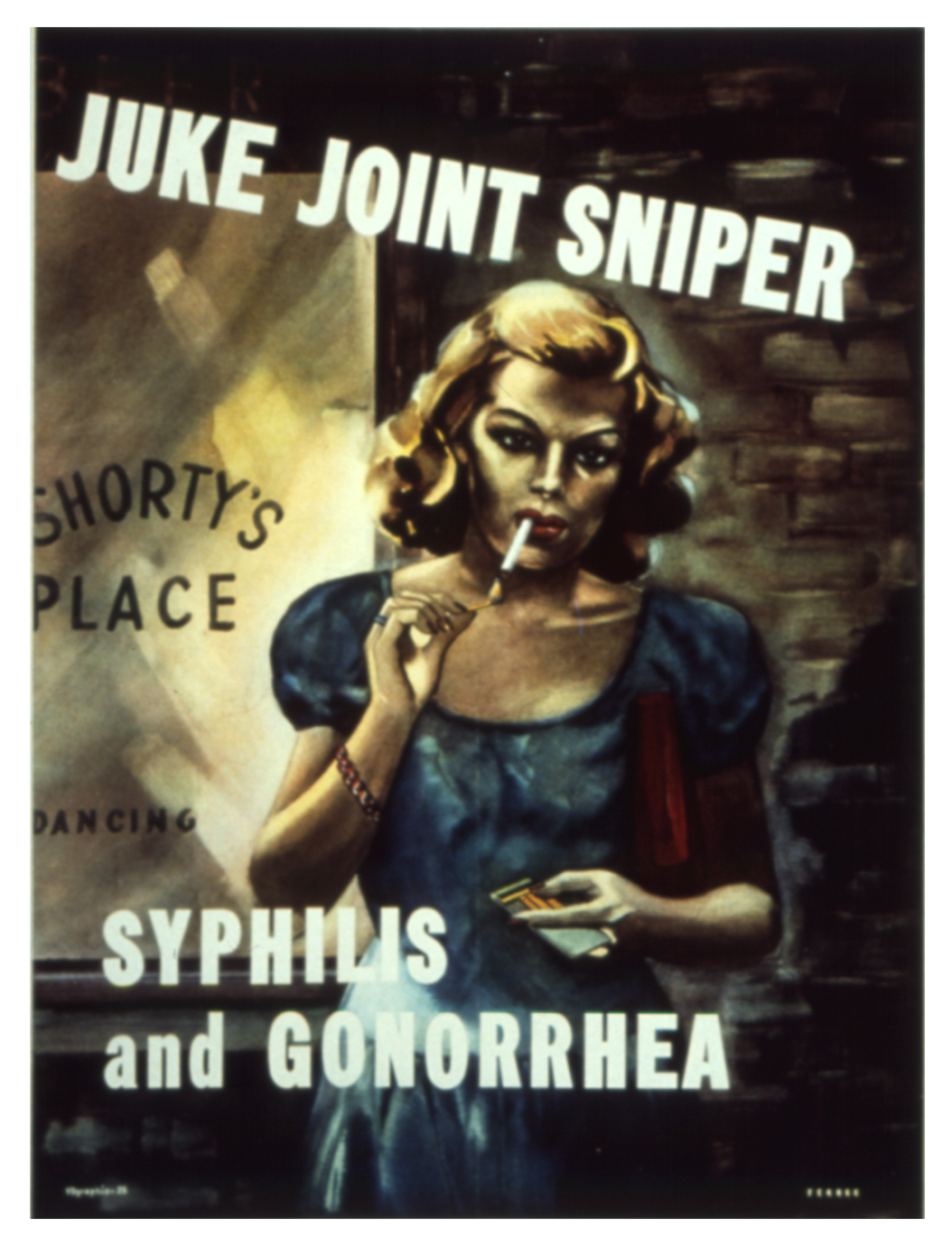 U.S. World War II anti-venereal disease poster.